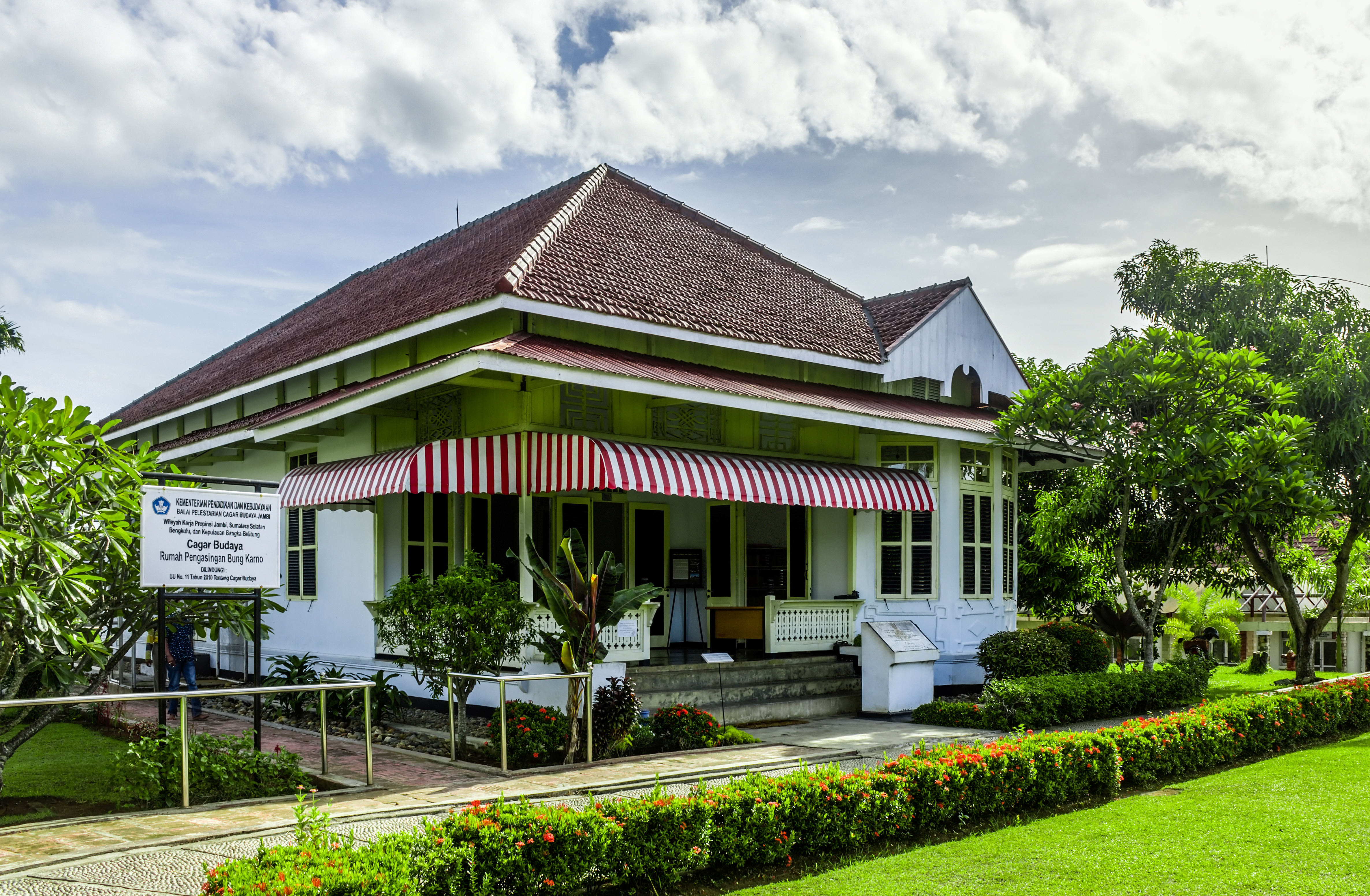 Exile house of Sukarno, Bengkulu 2015-04-19